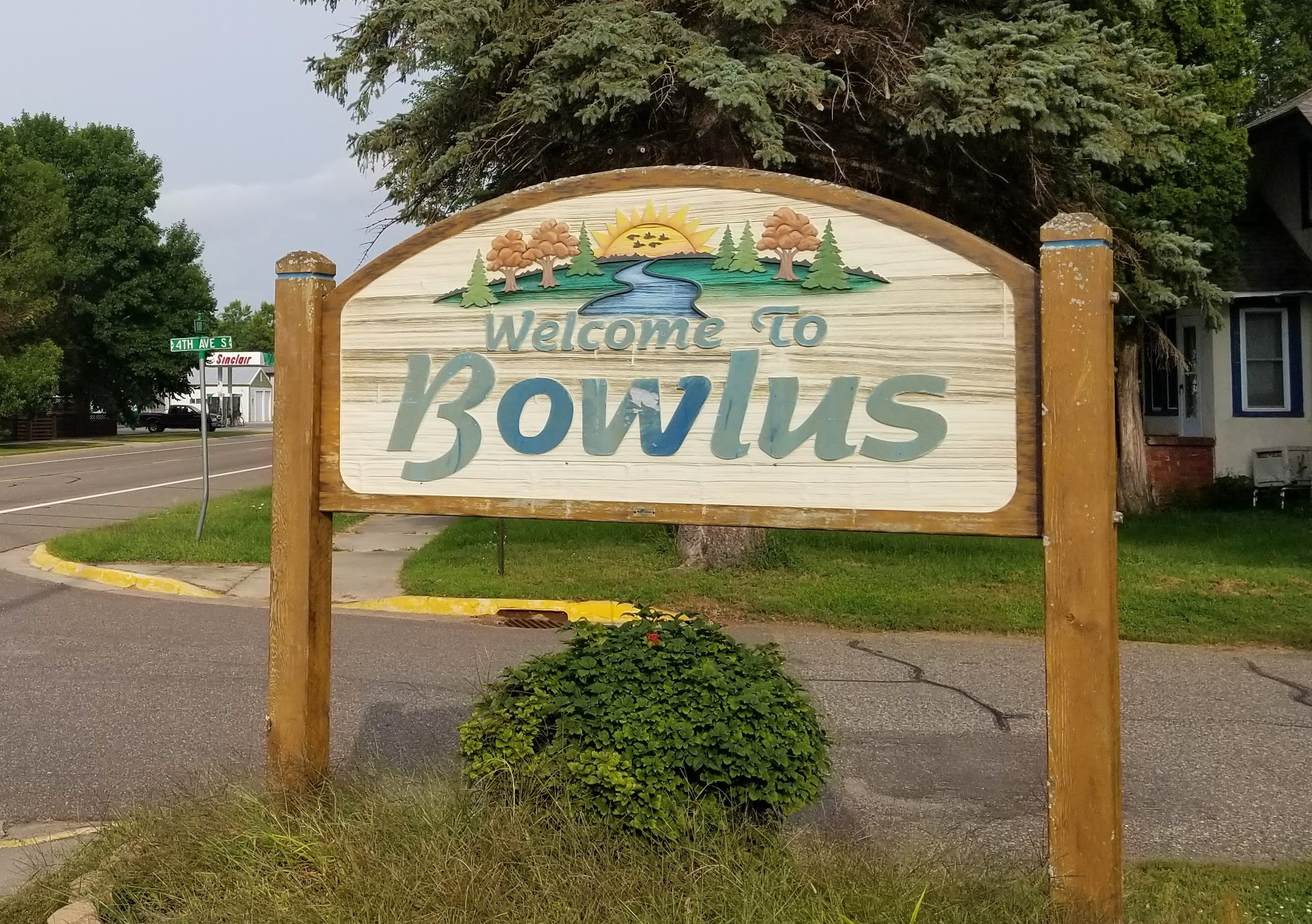 Painted sign reading "Welcome to Bowlus", located on Main Street